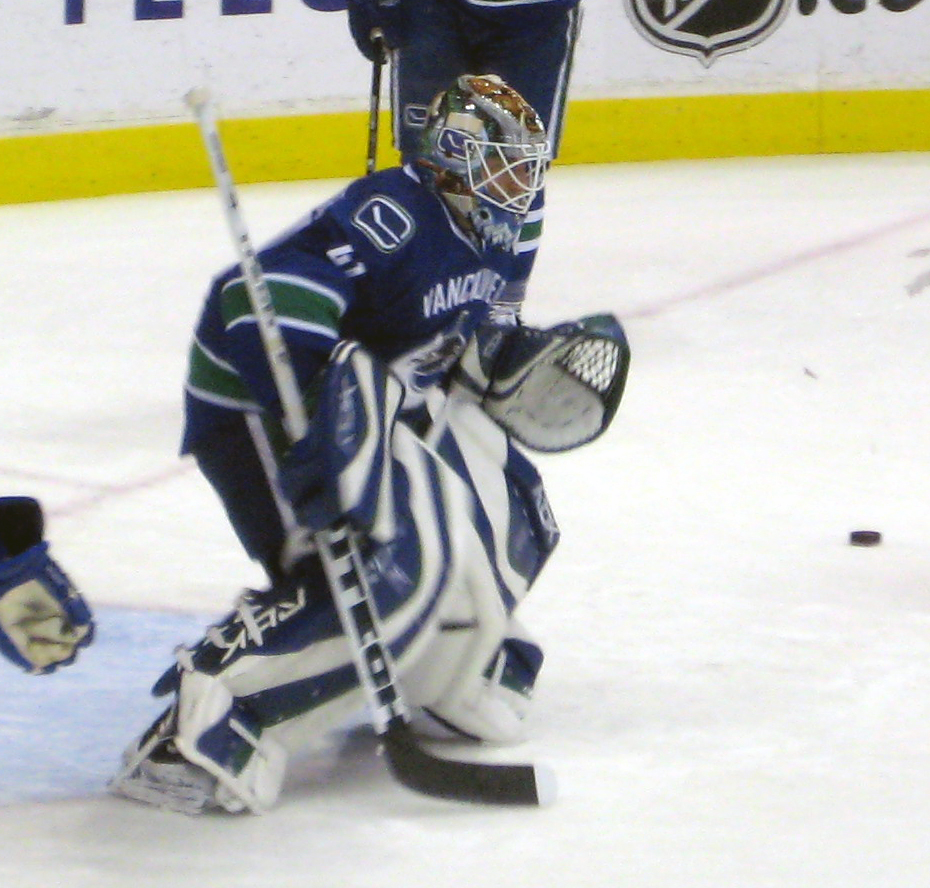 Vancouver Canucks backup goalie Curtis Sanford warming up for a game against the Rangers.